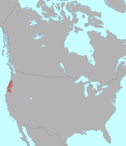 distribution of proposed Oregon Penutian languages listed here are: * Takelma * Kalapuyan * Alsean * Siuslaw * Coosan . All others are (sub-)families. * created by User:ish ishwar in 2005 * released under CC-by-2.0 Map redrawn and modified from two maps by cartographer Roberta Bloom appearing in Mithun (1999:xviii-xxi). Additional references include Mithun (1999:606-616), Goddard (1996) (contains a very nice color map), Sturtevant (1978-present), Campbell (1997:353-376). (cf. Image:Langs N.Amer.png) * Campbell, Lyle. (1997). American Indian languages: The historical linguistics of Native America. New York: Oxford University Press. ISBN 0-19-509427-1. * Goddard, Ives (Ed.). (1996). Languages. Handbook of North American Indians (W. C. Sturtevant, General Ed.) (Vol. 17). Washington, D. C.: Smithsonian Institution. ISBN 0-1604-8774-9. * Goddard, Ives. (1999). Native languages and language families of North America (rev. and enlarged ed. with additions and corrections). [Map]. Lincoln, NE: University of Nebraska Press (Smithsonian Institute). (Updated version of the map in Goddard 1996). ISBN 0-8032-9271-6. * Mithun, Marianne. (1999). The languages of Native North America. Cambridge: Cambridge University Press. ISBN 0-521-23228-7 (hbk); ISBN 0-521-29875-X. * Sturtevant, William C. (Ed.). (1978-present). Handbook of North American Indians (Vol. 1-20). Washington, D. C.: Smithsonian Institution. (Vols. 1-3, 16, 18-20 not yet published).